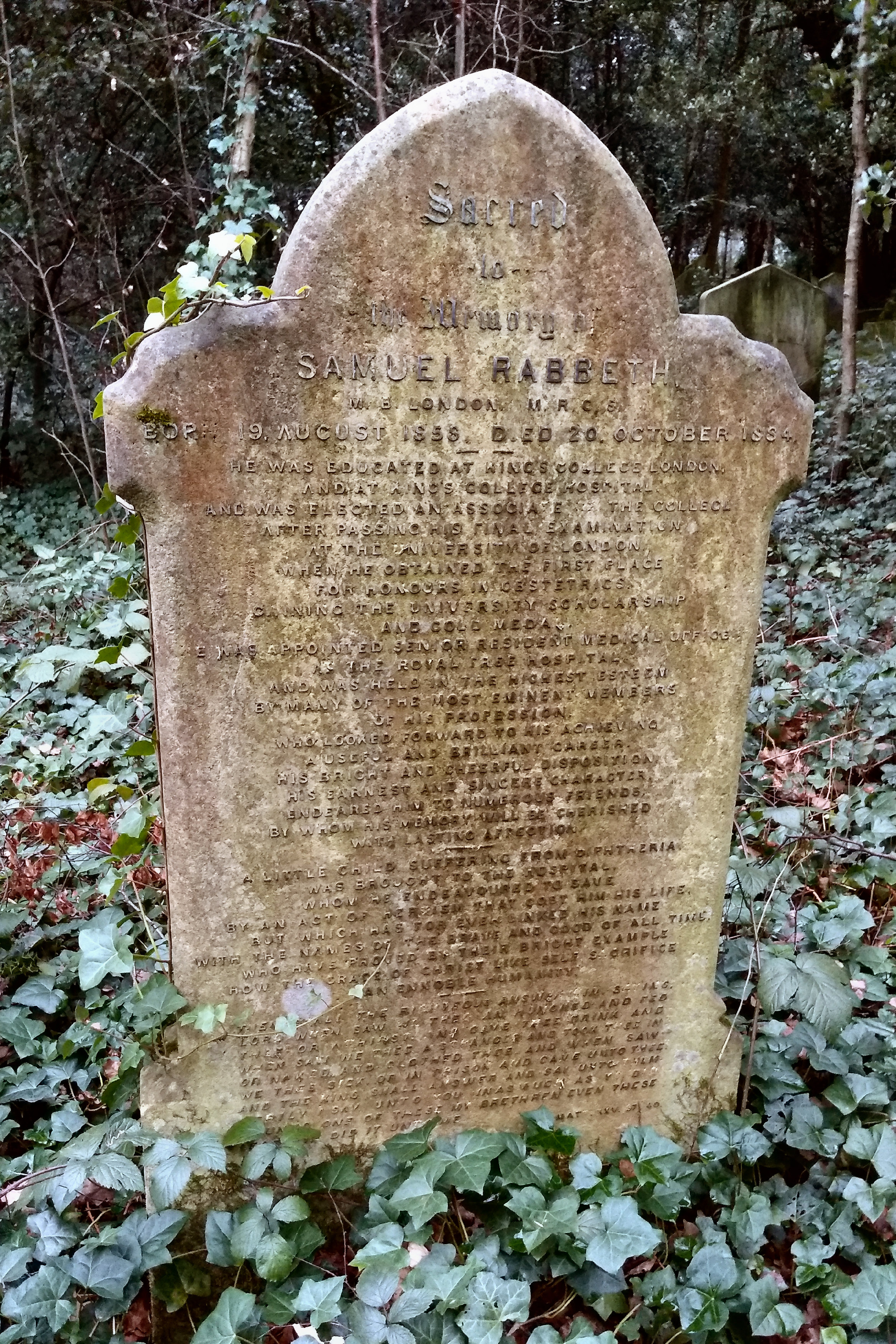 Barnes Old Cemetery, Dr Samuel Rabbeth d 1884 memorial. He has a memorial in Postman's Park, London. The inscription reads Sacred to the memory of Samuel Rabbeth, M.B. London M.R.C.S. Born 19, August 1858. Died 20 October 1884. He was educated at King's College London, and at King's College Hospital and was elected an associate at the College after passing his final examination at the University of London. When he obtained the first place for honours in obstetrics gaining the university scholarship and gold medal. He was appointed senior resident medical officer at the Royal Free Hospital and was held in the highest esteem by many of the most eminent members of his profession who looked forward to his achieving a useful and brilliant career. His bright and cheerful disposition, his earnest and sincere character endeared him to numerous friends by whom his memory will be cherished with lasting affection. A little child suffering from diphtheria was brought to the hospital whom he endeavoured to save by an act of heroism that cost him his life but which for ever links his name with the names of the brave and good of all time, who have proved by their bright example how the grace of Christ like self sacrifice can ennoble humanity. Then shall the righteous answer him, saying, Lord, when saw we thee an hungred, and fed thee? or thirsty, and gave thee drink? When saw we thee a stranger, and took thee in? or naked, and clothed thee? Or when saw we thee sick, or in prison, and came unto thee? And the King shall answer and say unto them, Verily I say unto you, Inasmuch as ye have done it unto one of the least of these my brethren, ye have done it unto me. Matthew 25, 37-40. Also (left hand side) "In loving memory of Annie Rabbeth born May 12th 1826, died Dec 25th 1916" and (right hand side) “In loving memory of John Edward Rabbeth born Jan 10th 1823, died Aug 16th 1900. “he Giveth his beloved sleep”